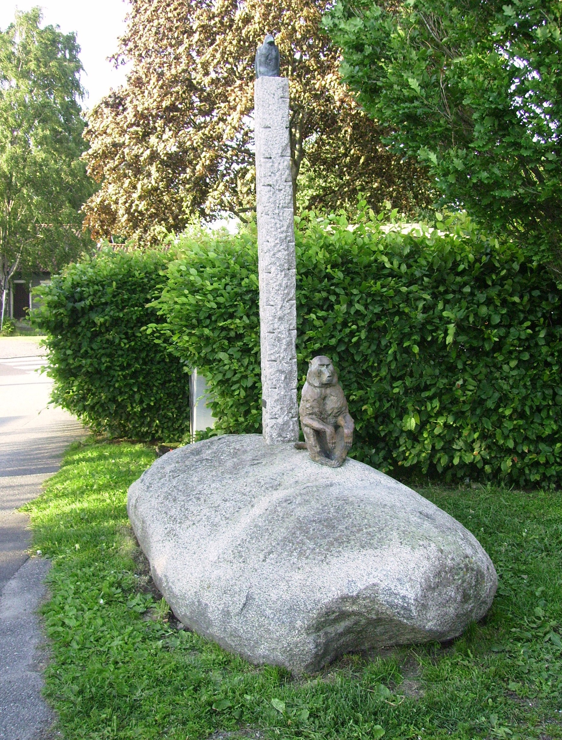 Picture of sculpture in Gothenburg, Baboon and the crow.